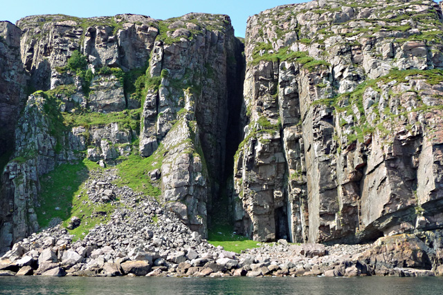 Deeply fractured coastline The great vertical cracks in the cliffs are deep. They are clearly visible on the 1:25k map.